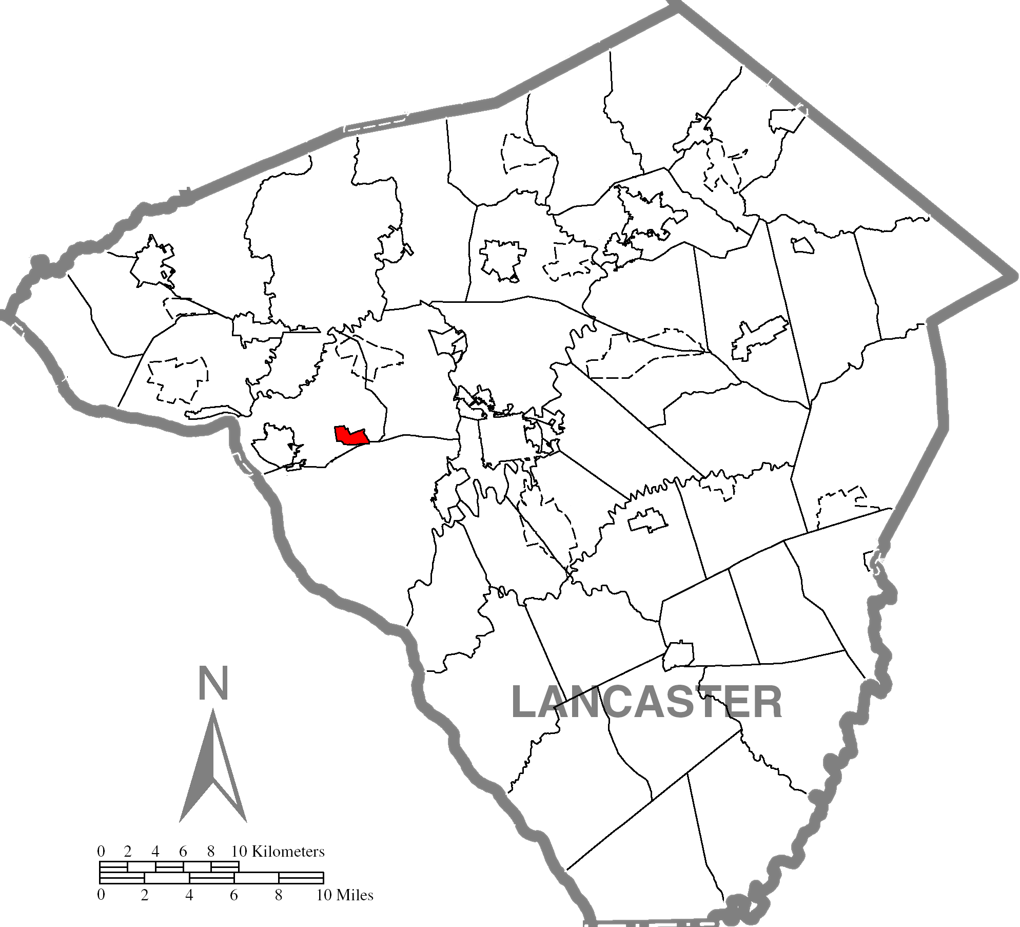 Highlighted Lancaster County map of Mountville.